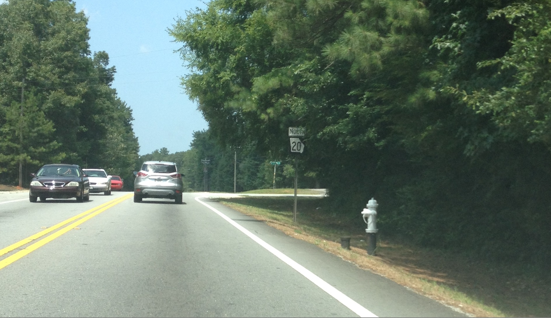 GA SR 20 just south of Conyers, GA. This is shortly after the directional change between McDonough, GA and Conyers.